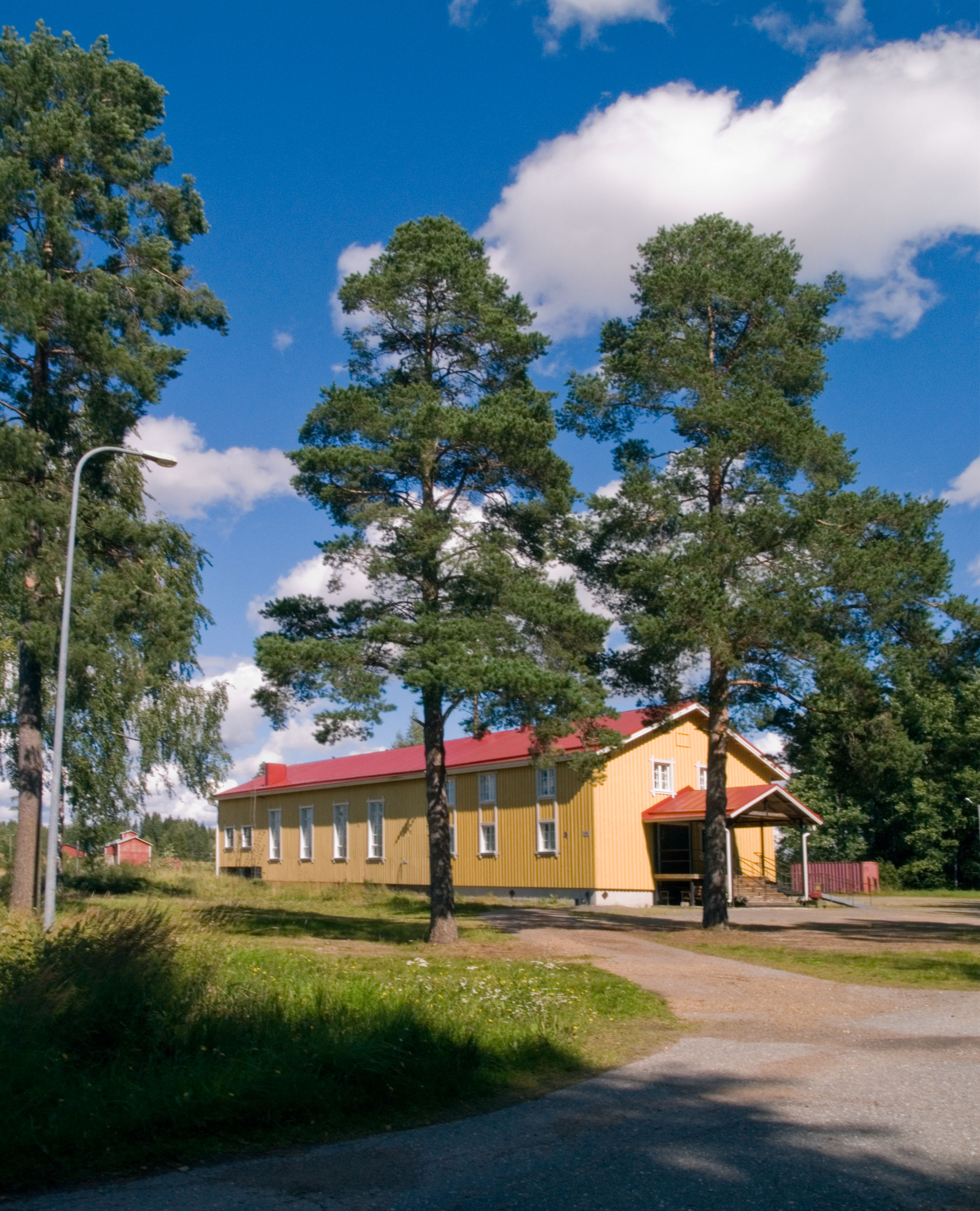 Hall for social gatherings in Kanteenmaa village, Punkalaidun, Finland.